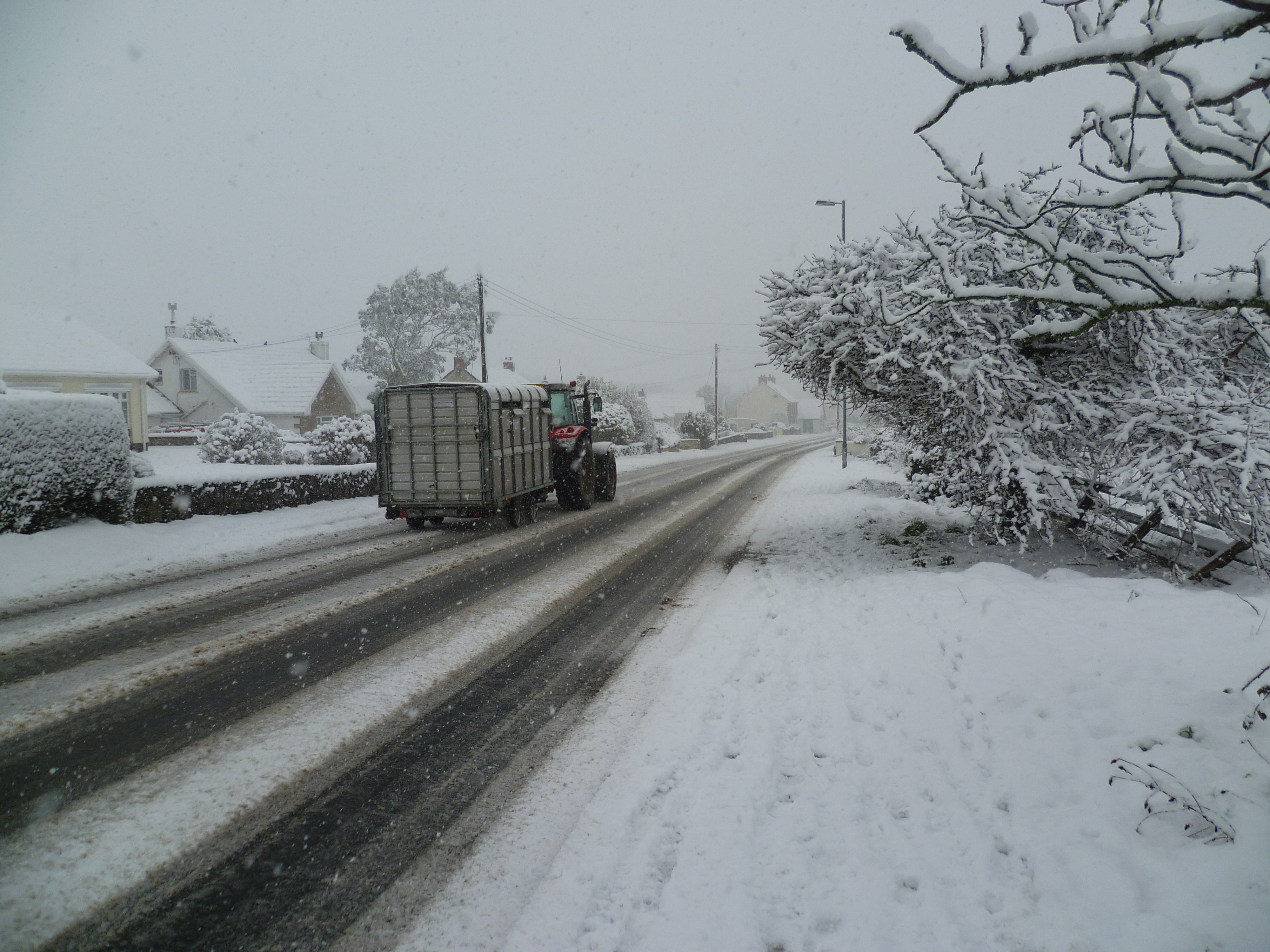 Photograph taken in January 2013 of the main road through Blaenffos, Pembrokeshire